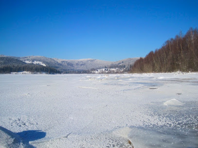 Kitty Ann Mountain 1259ft is an eroded mountain in the Ramapo mountain range in New Jersey and New York. Note: Kitty Ann Mountain is 1159 feet above sea level; its north slope is 892 feet, the east slope 814 feet, the west slope is 758 feet and the south slope is 259 feet.